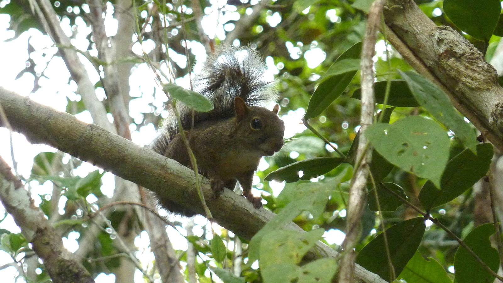 A photograph of Sciurus ingrami